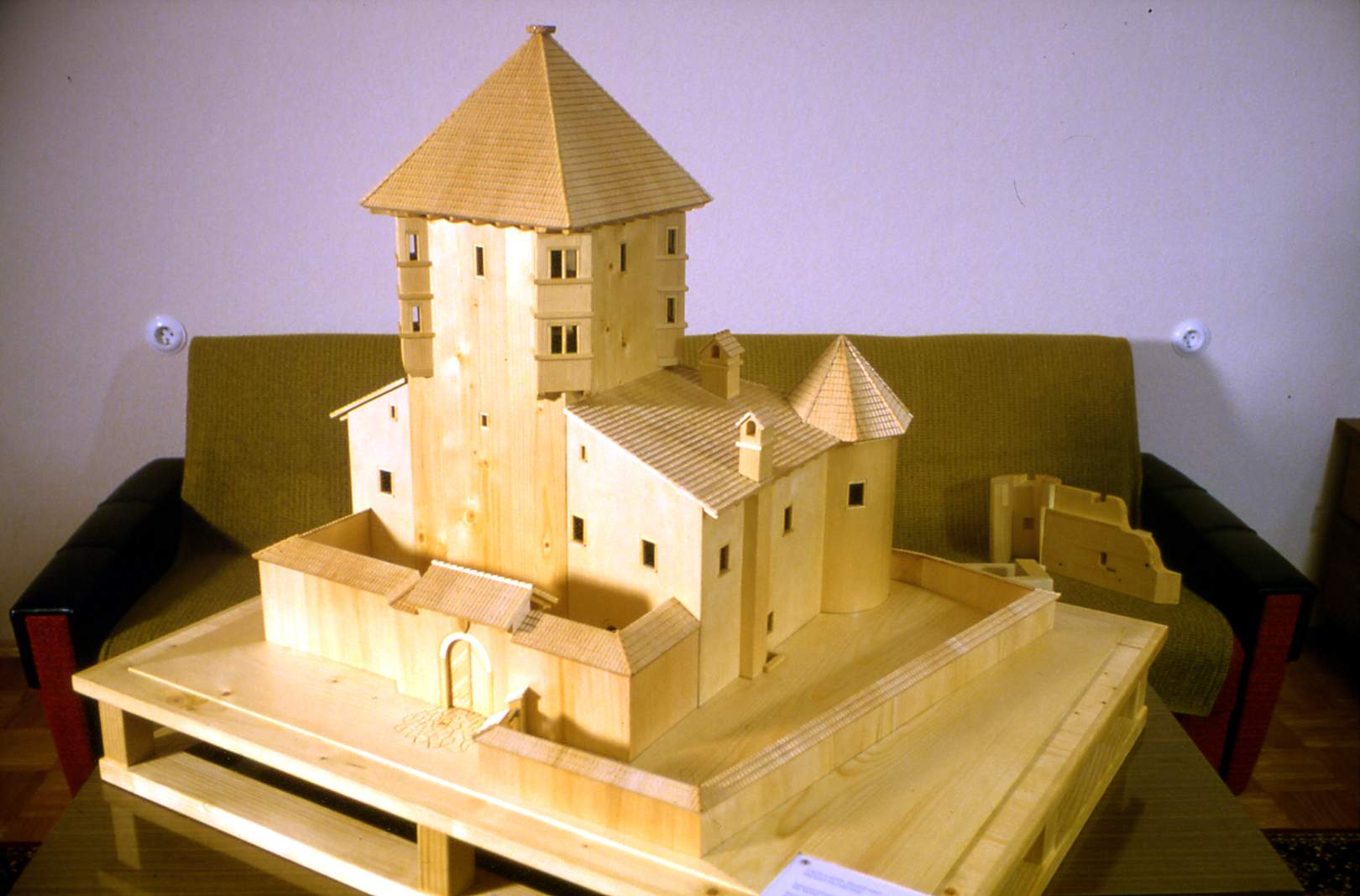 Model of castle Oberdorf in Dornbirn, Vorarlberg, Austria during excavations 1970 with the participation of Franz Josef Huber.